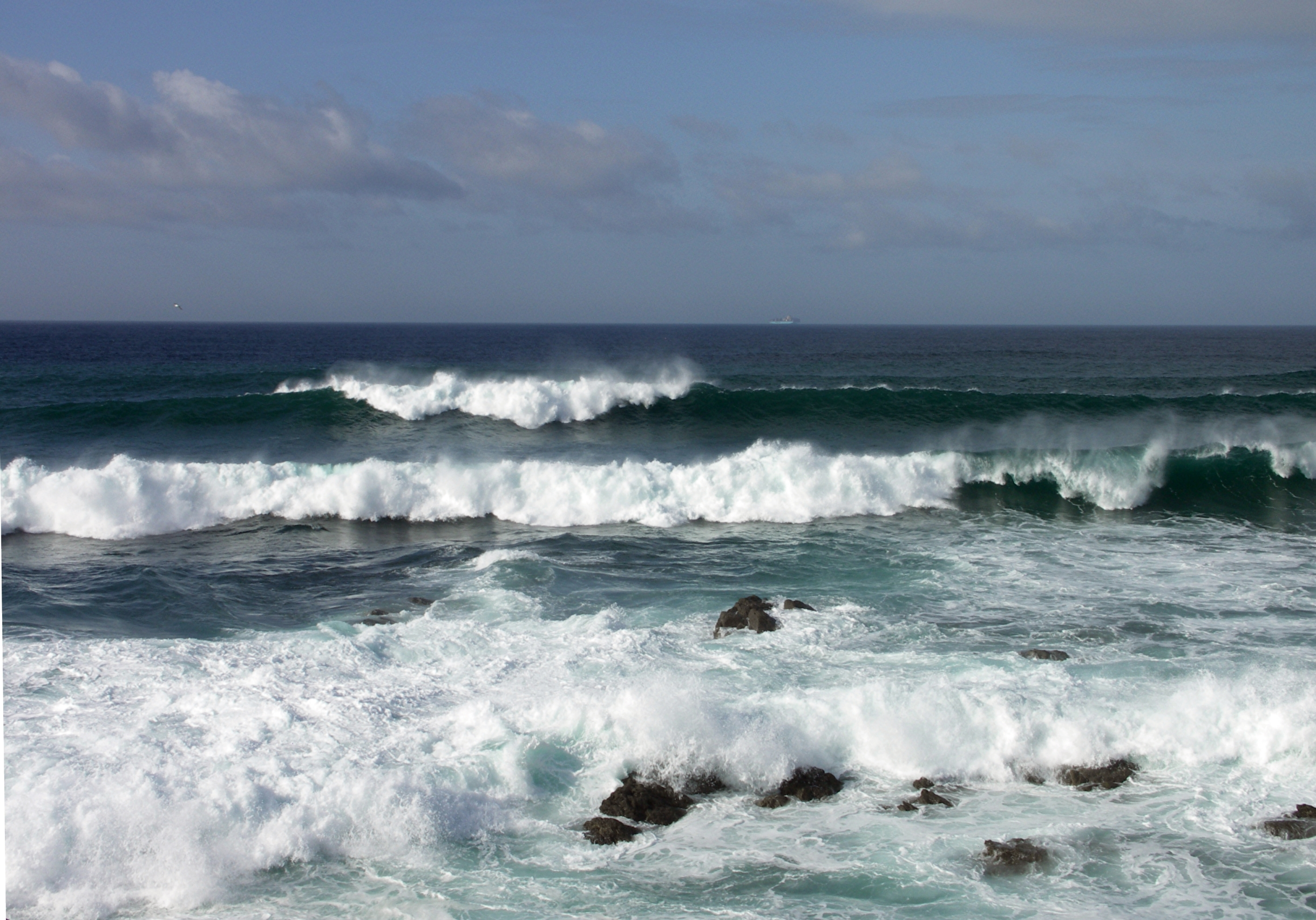 Village of Porto Covo, west coast of Portugal